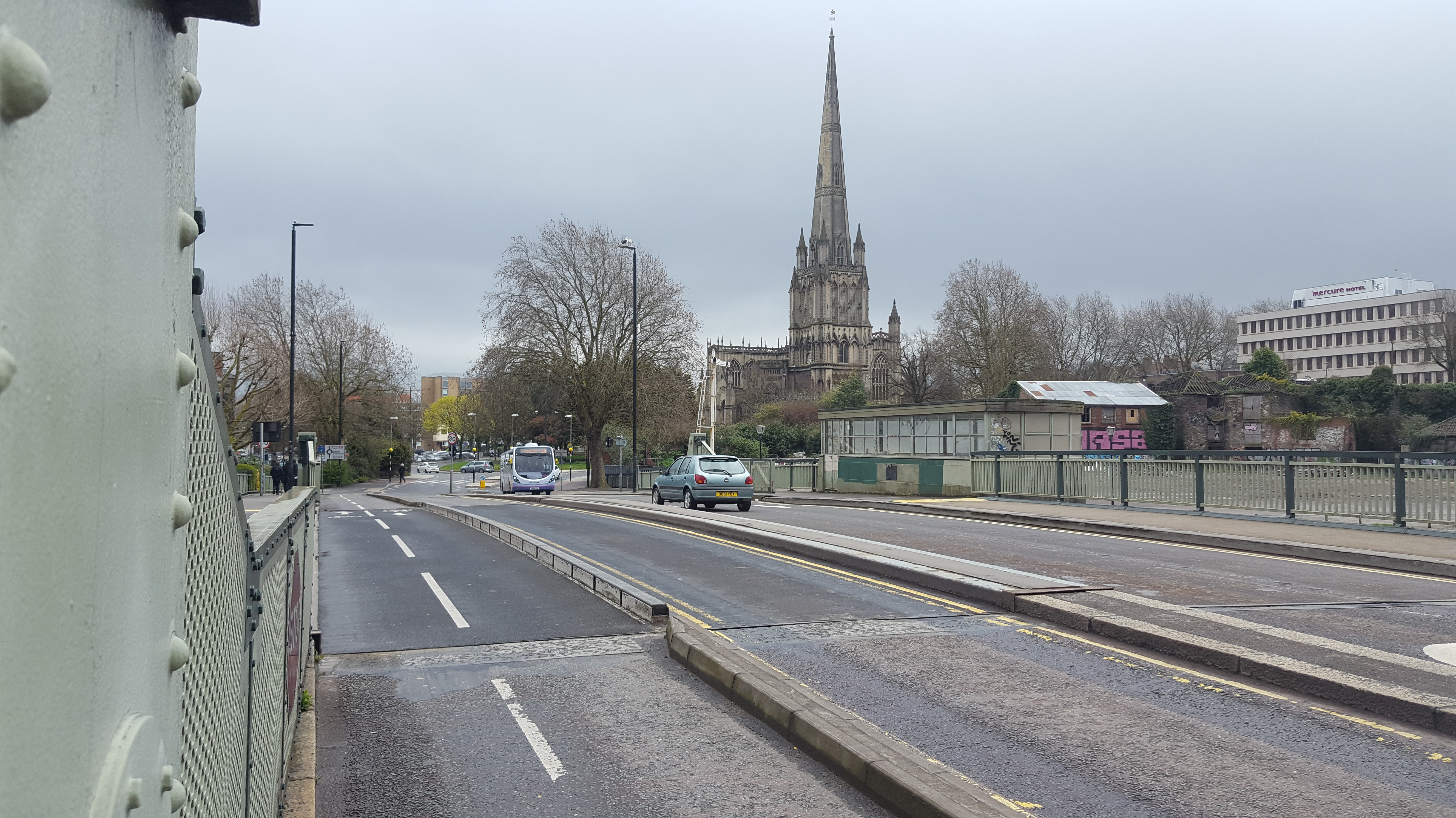 Redcliffe Bascule Bridge and St Mary Redcliffe Church looking towards Temple Gate, April 2018